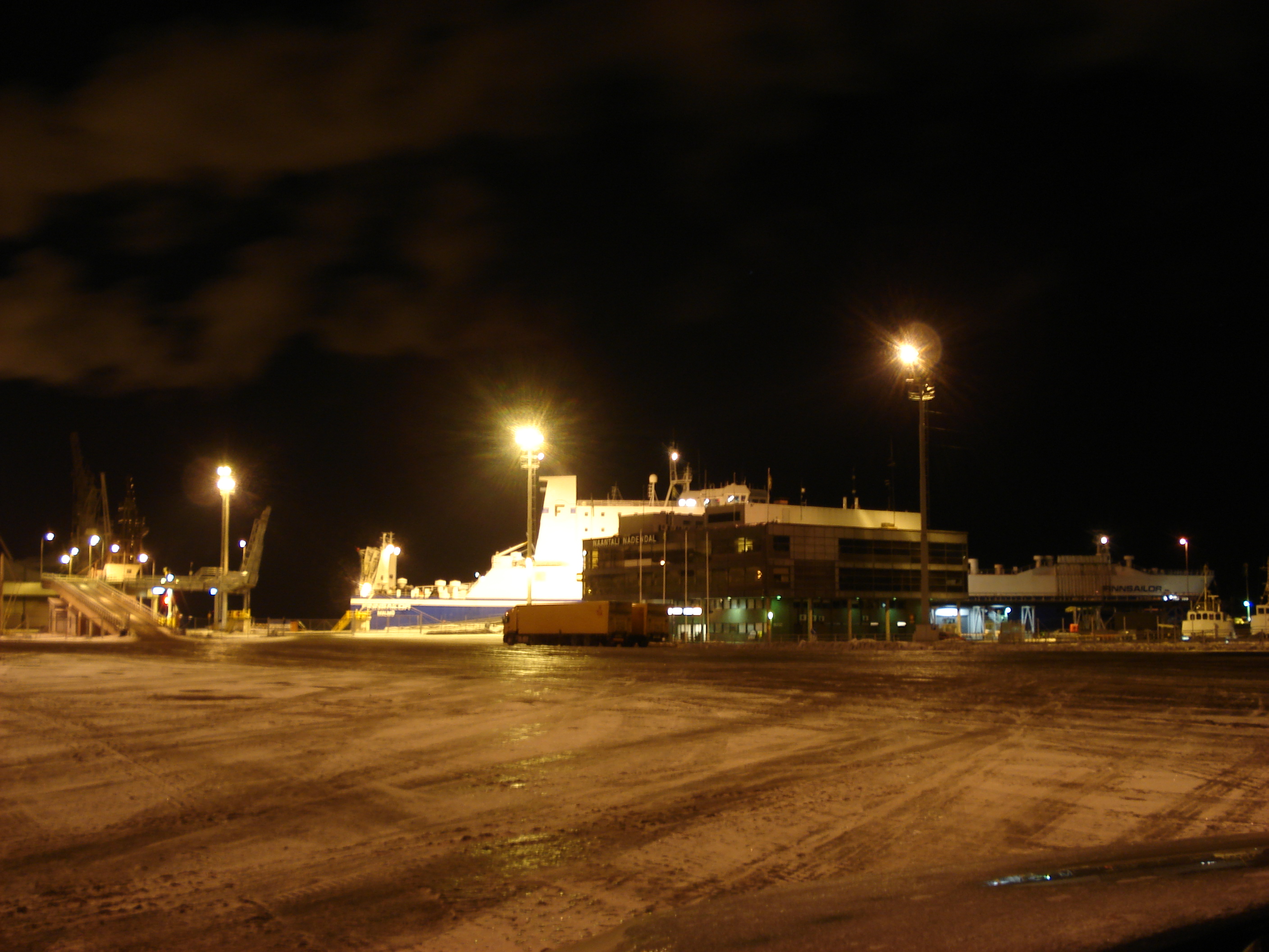 Port of Naantali, Naantali, Finland. Behind the terminal is MS Finnsailor owned by Finnlines.